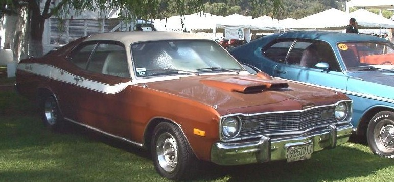 1974 Dodge Dart Superbee from Mexico